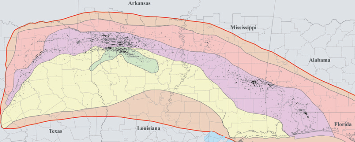 Smackover Formation areal extent based on well formation tops